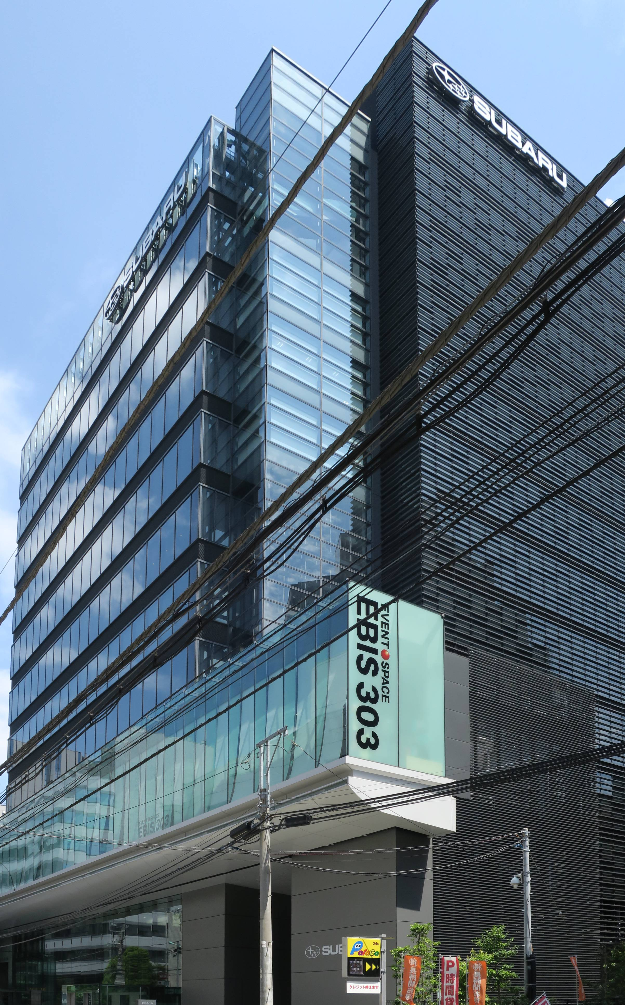 Ebisu Subaru Building.